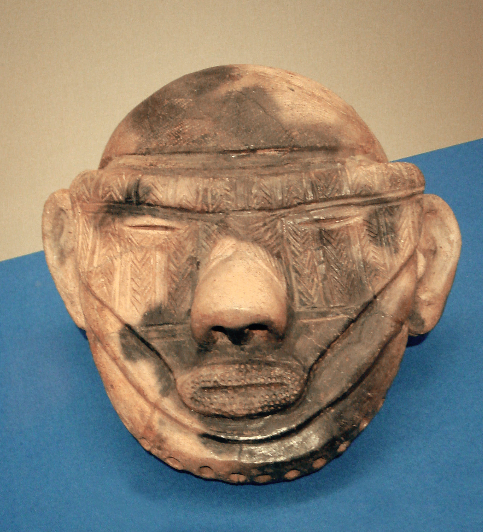 Face of a large earthen figure (estimateur original height one metre). Late Jomon, c. 1500BCE . Shidanai Iwateken. Owned by Bunkacho (Agency of Culture), Tokyo. Reference : Keiji Imamura, Prehistoric Japan : New perspectives on insulaire East Asia, UCL Press, 1996. Front cover. (Excavated in Morioka. Important Cultural Property. [1])